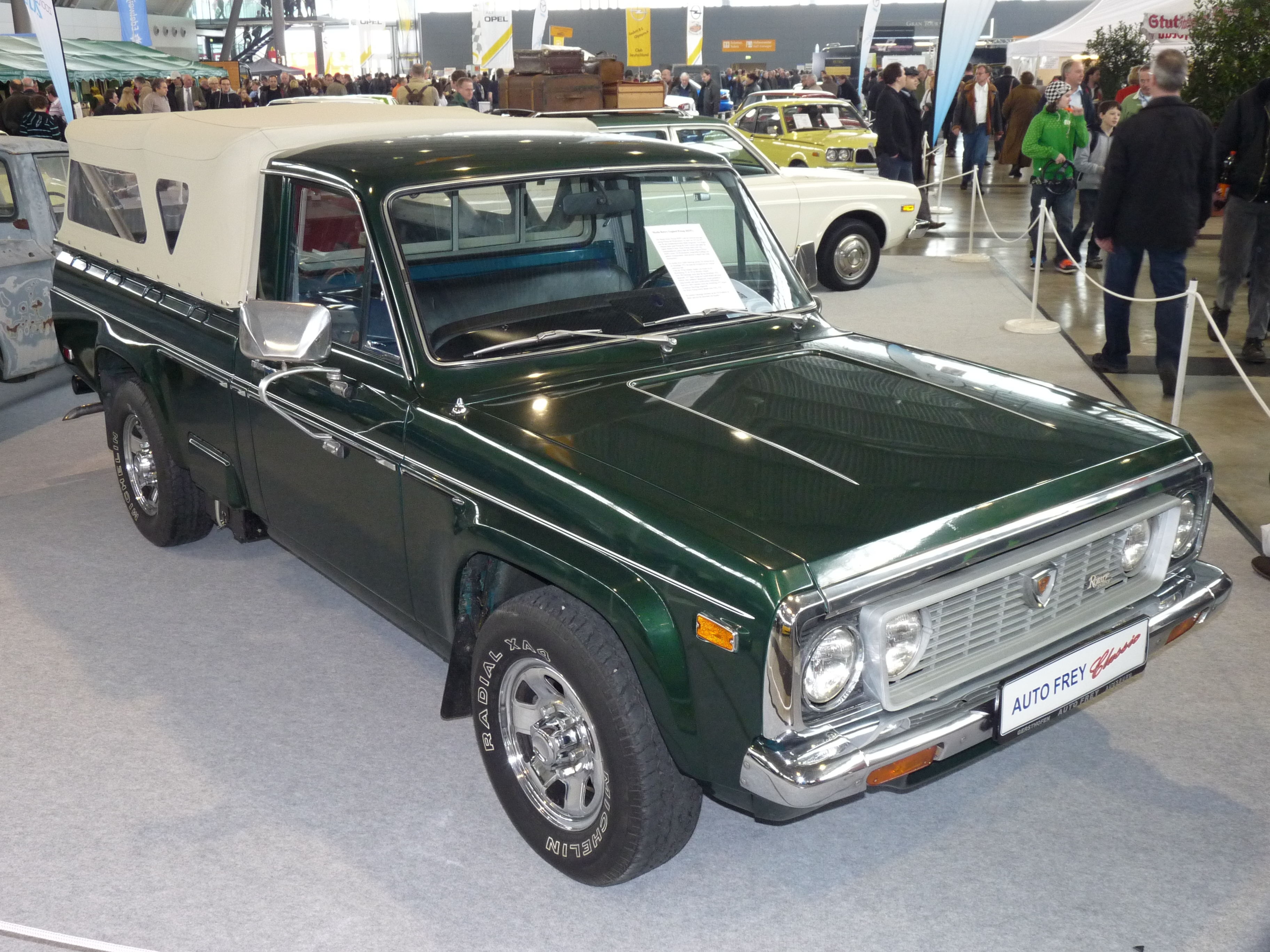 Mazda Rotary Engine Pickup (REPU), based on Mazda B-Series, produced für North American market between 1972 and 1977. Seen at RETRO CLASSICS, Stuttgart.